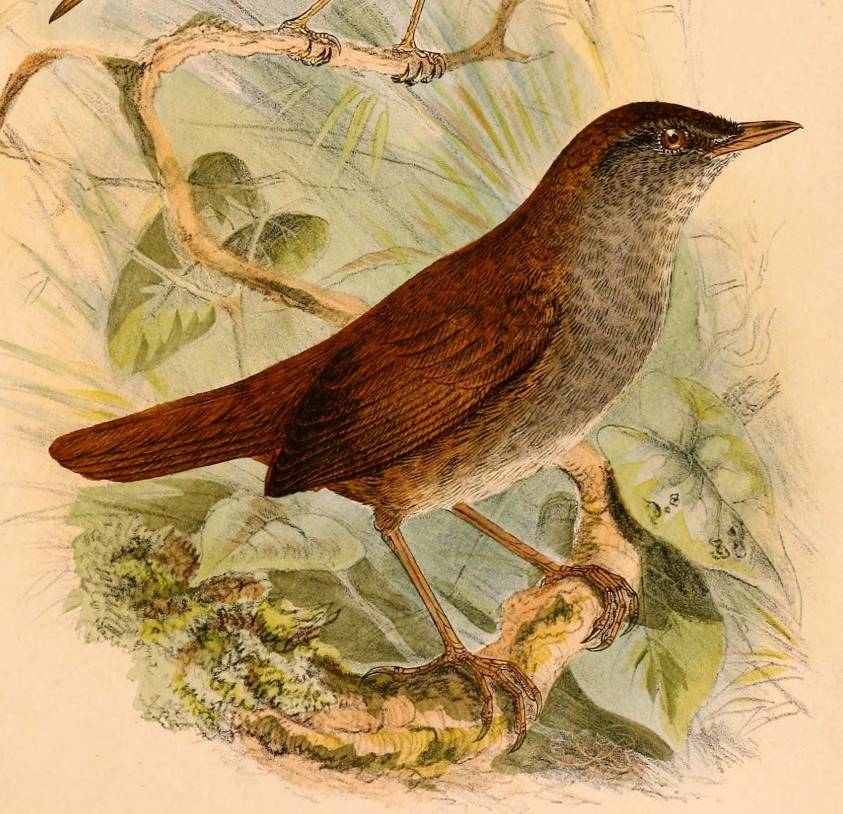 « Androphilus castaneus » = Locustella castanea (Chestnut-backed Bush Warbler)